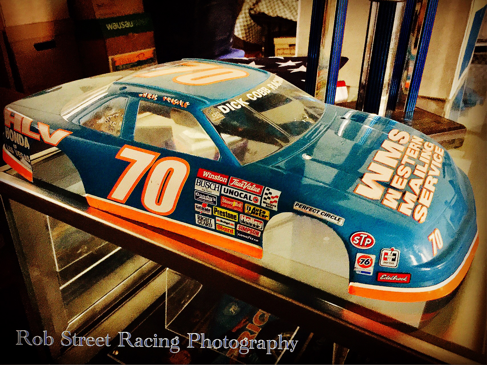 My photo of model of Chris Trickle's Race Car